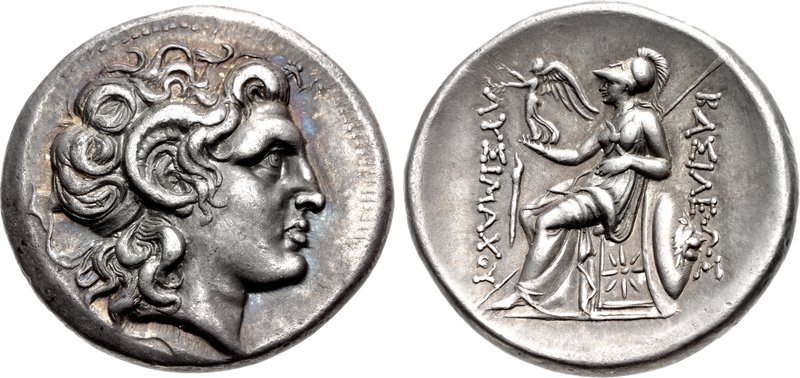 KINGS of THRACE, Macedonian. Lysimachos. 305-281 BC. AR Tetradrachm (28mm, 17.02 g, 12h). Lampsakos mint. Struck 297/6-282/1 BC. Diademed head of the deified Alexander right, with horn of Ammon / BAΣIΛEΩΣ ΛYΣIMAXOY, Athena Nikephoros seated left, left arm resting on shield, transverse spear in background; torch to inner left, star on throne.